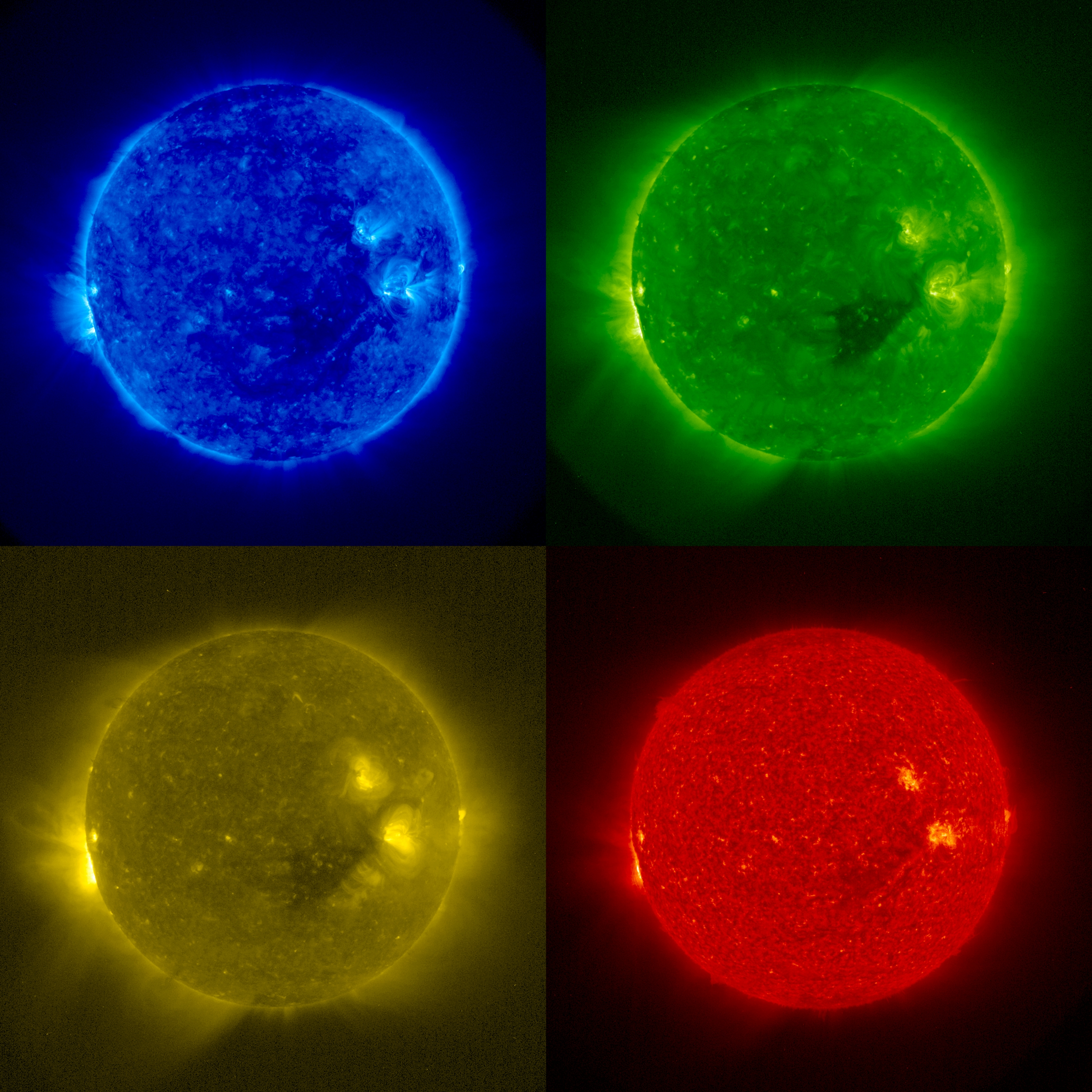 Solar Images. A mosaic of the extreme ultraviolet, first, images from STEREO-A's SECCHI/Extreme Ultraviolet Imaging Telescope